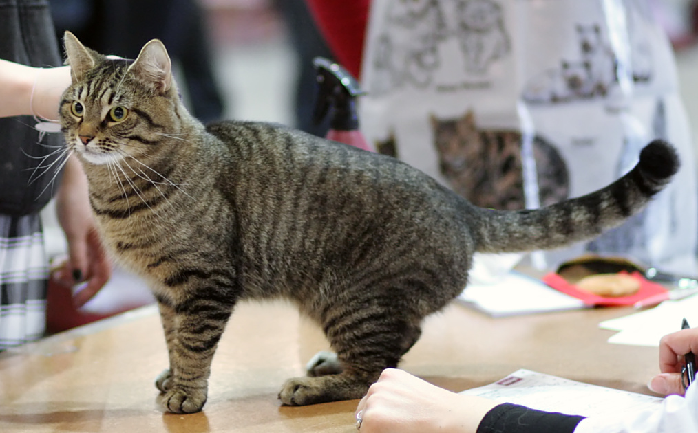 Kassilan Captain Coffee, European Shorthair (or Celtic Shorthair) in Helsinki Cat Show 2008.